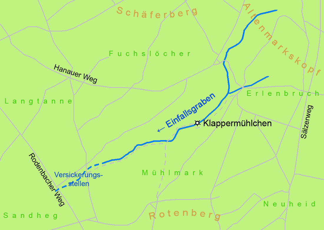 Map of Einfallsgraben near Alzenau, Bavaria Forest Body of water Agricultural road and Forest road Fink Field name